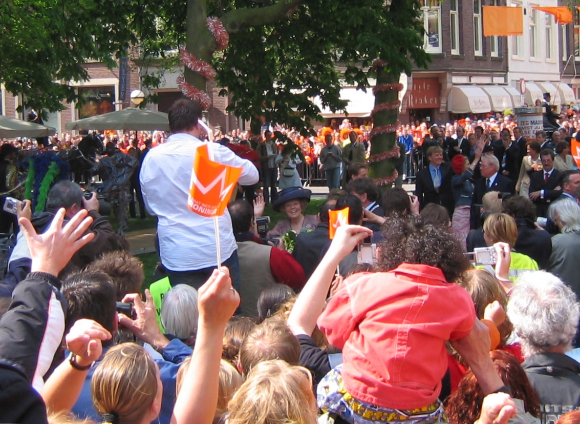 The queen of the Netherlands on the Dutch Queen's Day, greeting people in Groningen.